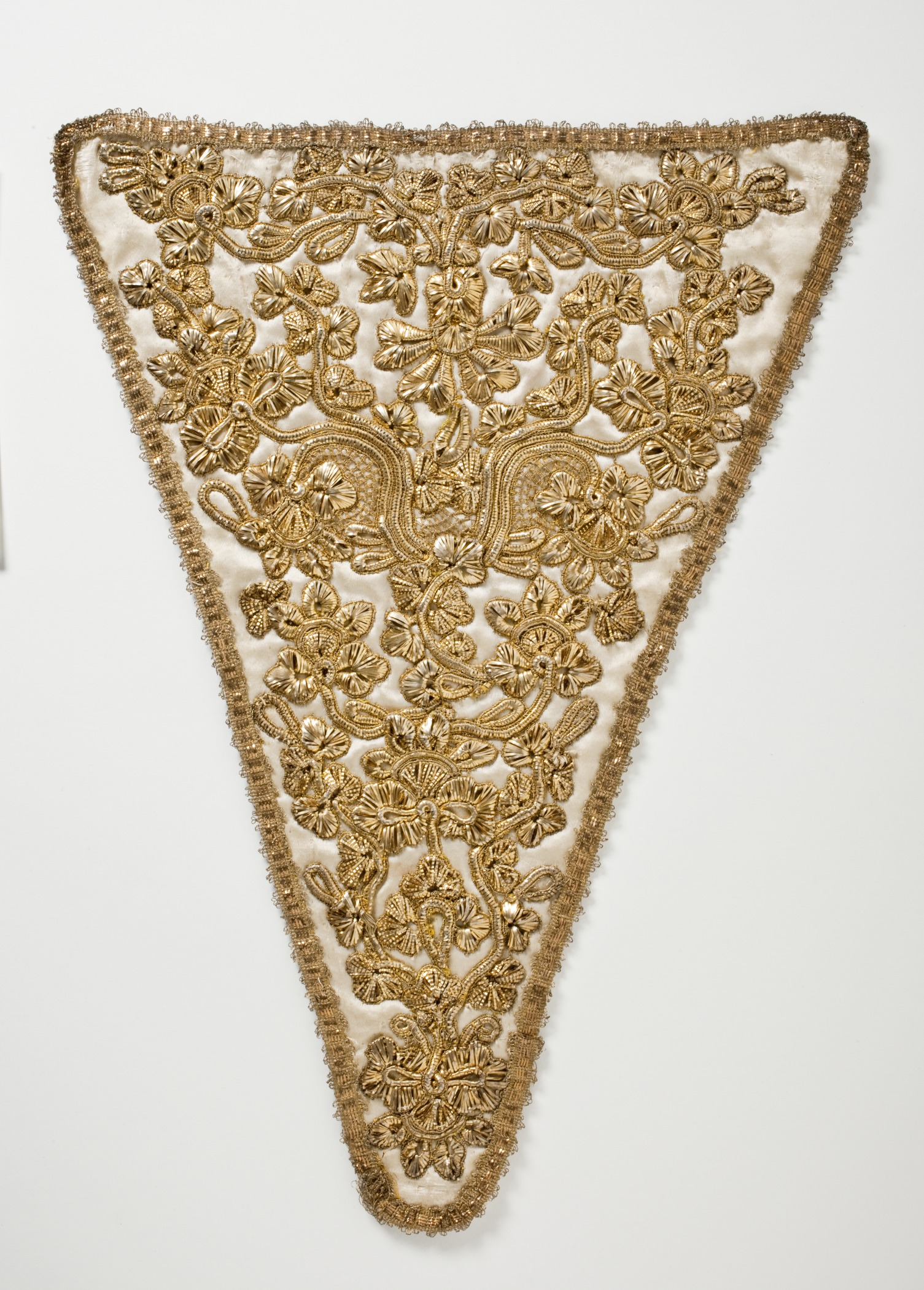 Probably England, mid-18th century Costumes; principal attire (upper body) Silk satin with metallic-thread embroidery and passementerie Center front length: 15 1/2 in. (39.37 cm) Purchased with funds provided by Suzanne A. Saperstein and Michael and Ellen Michelson, with additional funding from the Costume Council, the Edgerton Foundation, Gail and Gerald Oppenheimer, Maureen H. Shapiro, Grace Tsao, and Lenore and Richard Wayne (M.2007.211.129) Costume and Textiles